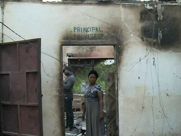 Government Bilingual High School in Fontem, South West Cameroon. ( Photo: M. Kindzeka / VOA)